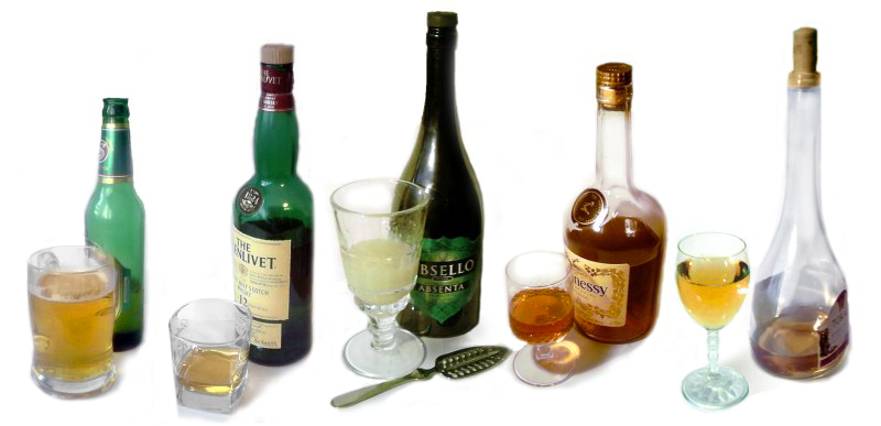 A montage of different alcoholic beverages in bottle and in glass: lager, single malt whisky, absinthe, cognac, white wine.